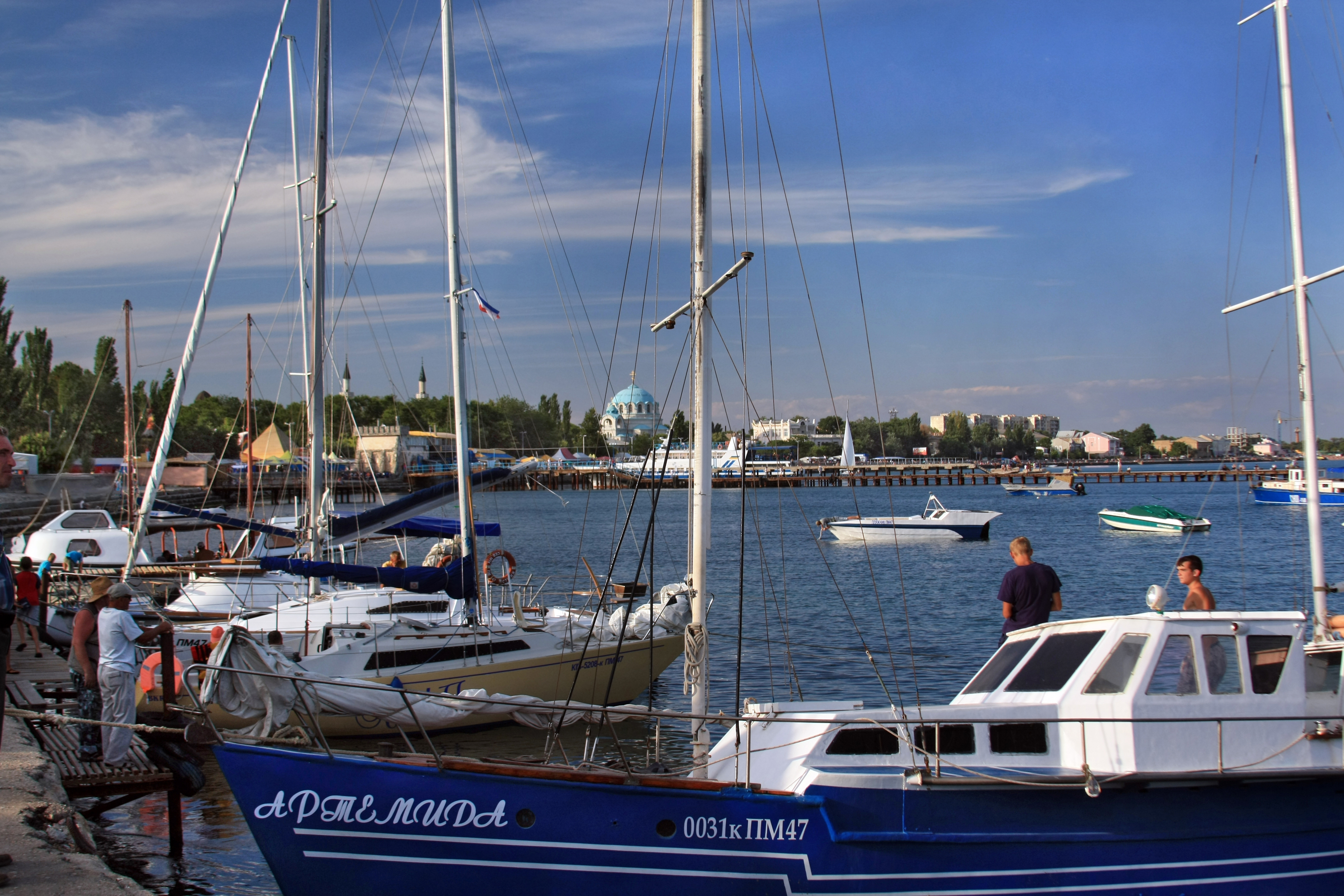 Yevpatoria Sea Port in Crimes